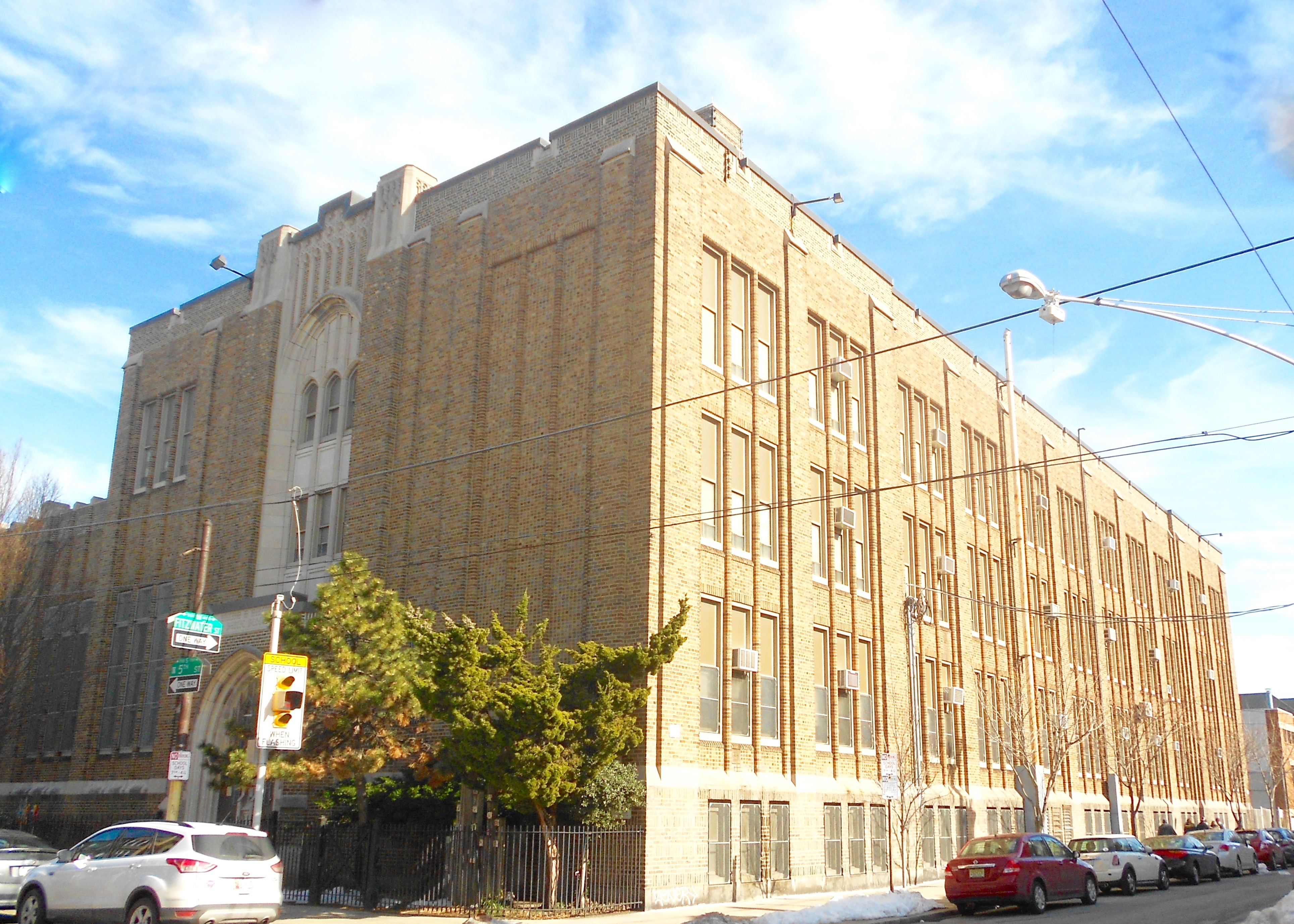 William M. Meredith School, listed on the NRHP on December 4, 1986 (#86003307) At 5th and Fitzwater Streets, in the Queen Village neighborhood of south Philadelphia, Pennsylvania